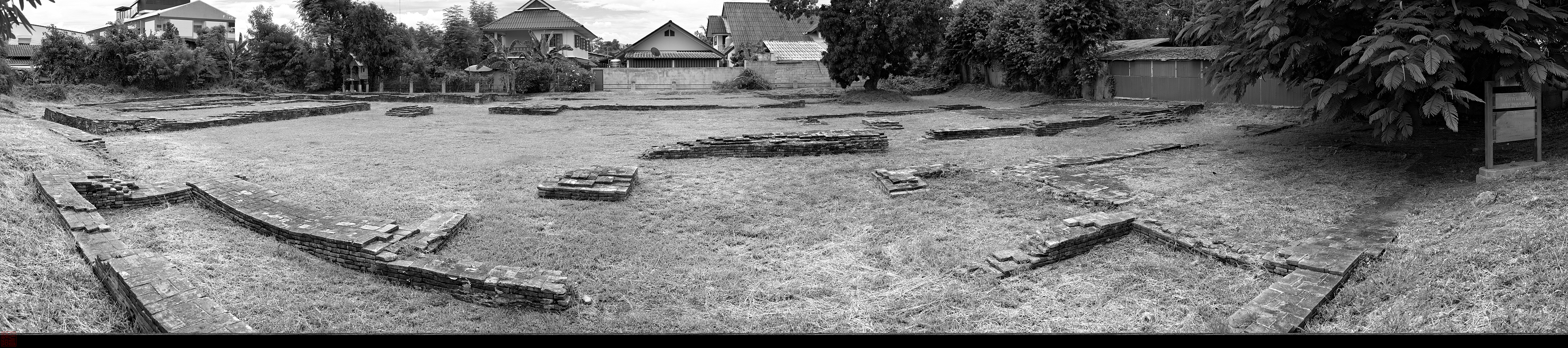 Wat Phan Lao, one of the ruined temples of the Wiang Kum Kam archaeological site near Chiang Mai in northern Thailand.